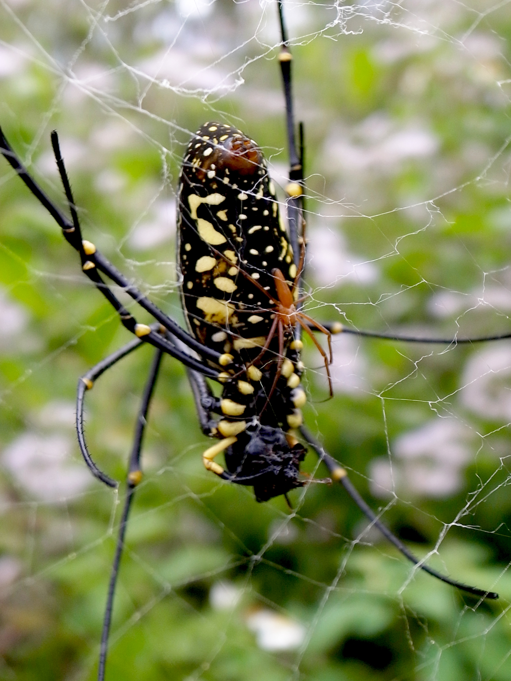 Mating Nephila pilipes. The orange one is male, and the black one is female.